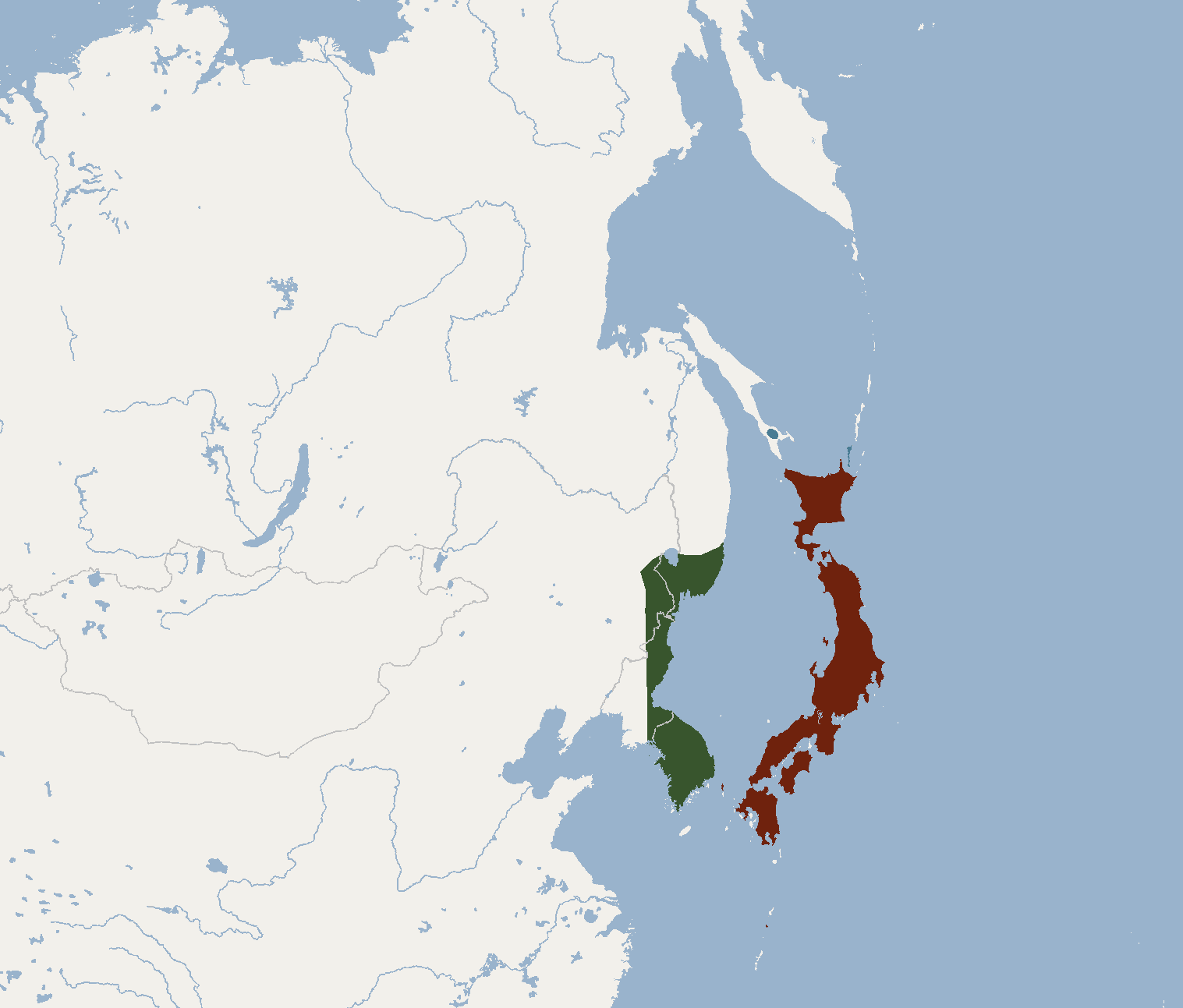 According to Smith & Xie, 2008